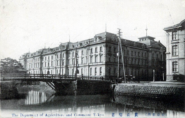 Commemorative postcard of Japanese Ministry of Agriculture and Commerce, circa 1890s